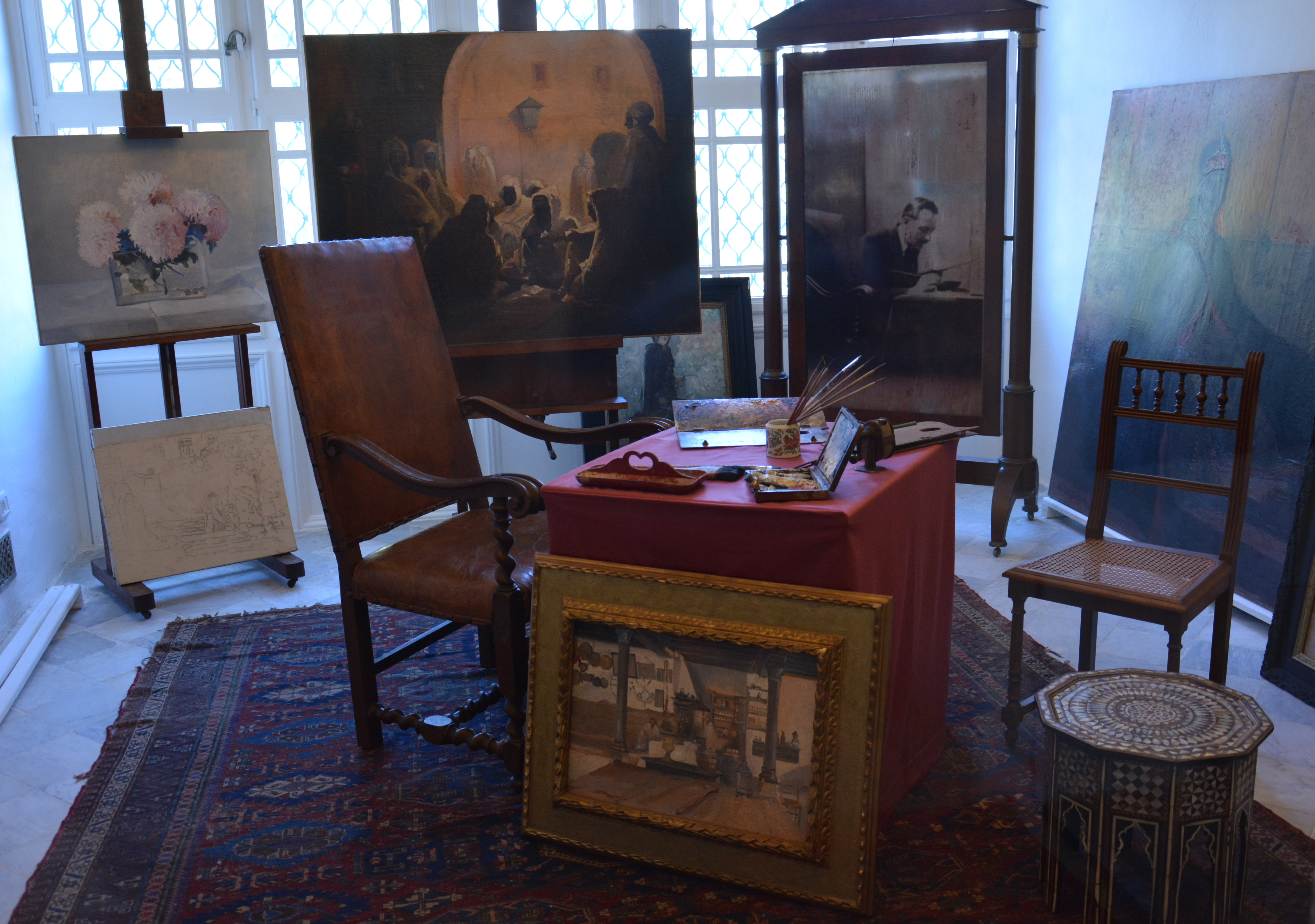 Gallery of Paintings of Rodolphe d'Erlanger located in Tunisia in Ennajma Azzahra Palace.